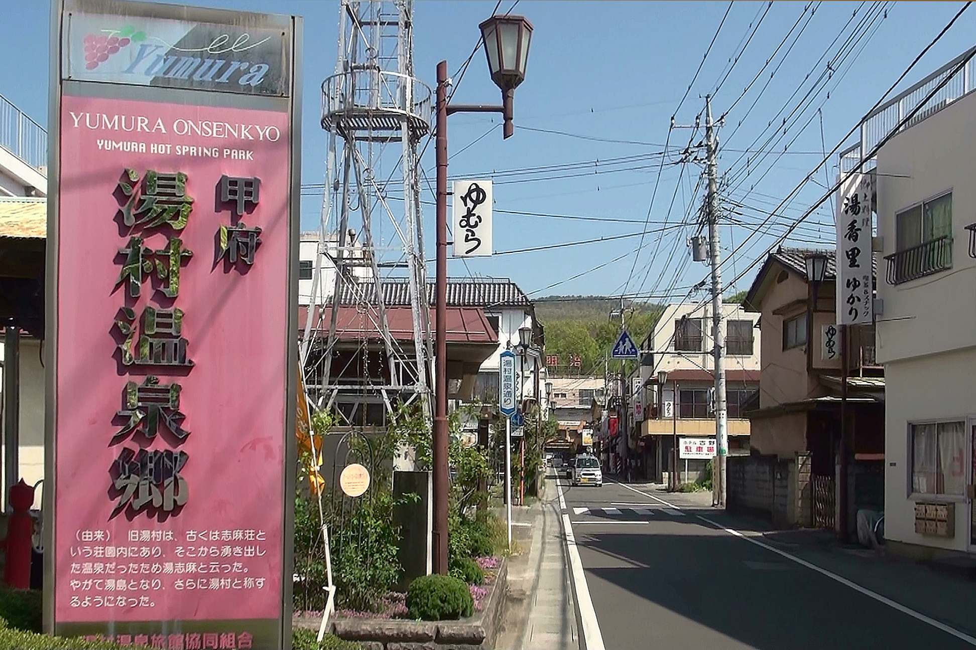 Yumura-hot spring street Kofu-city